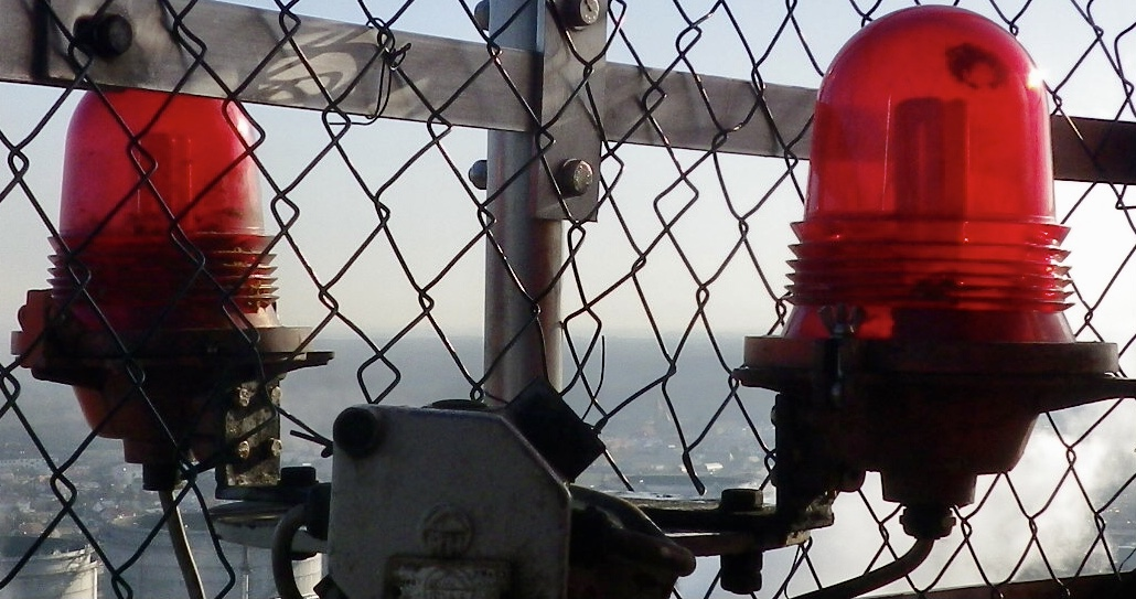 Low Intensity Obstacle Light on top of a powerplant chimney